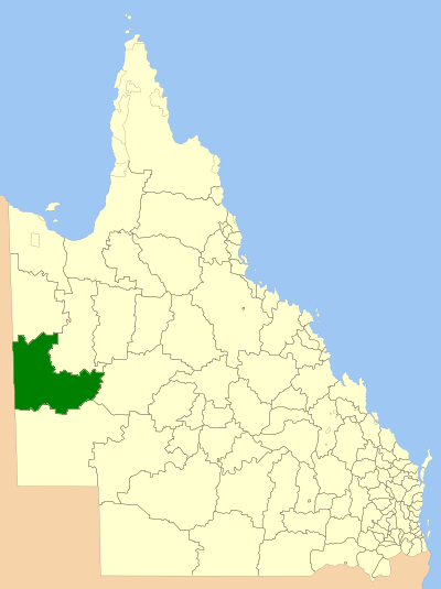 Location of the Local Government Area in Queensland